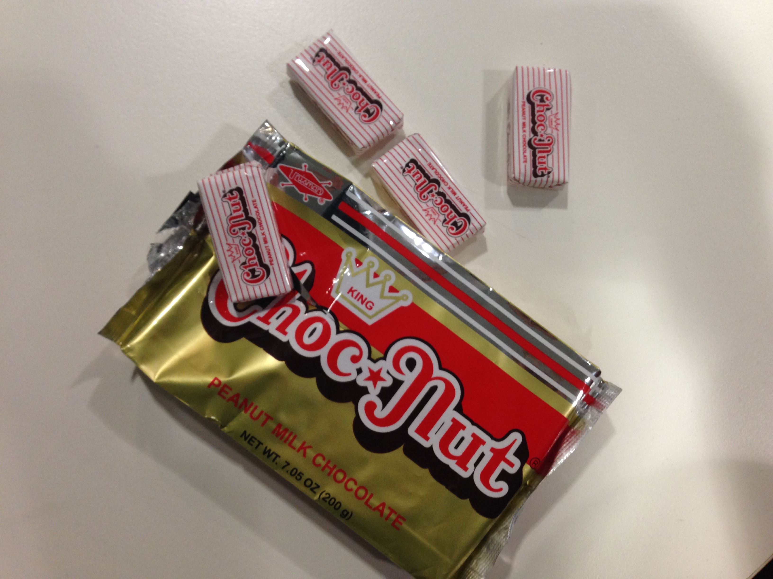 A half-open packet of Choc Nut candy showing the packaging and individually wrapped pieces.